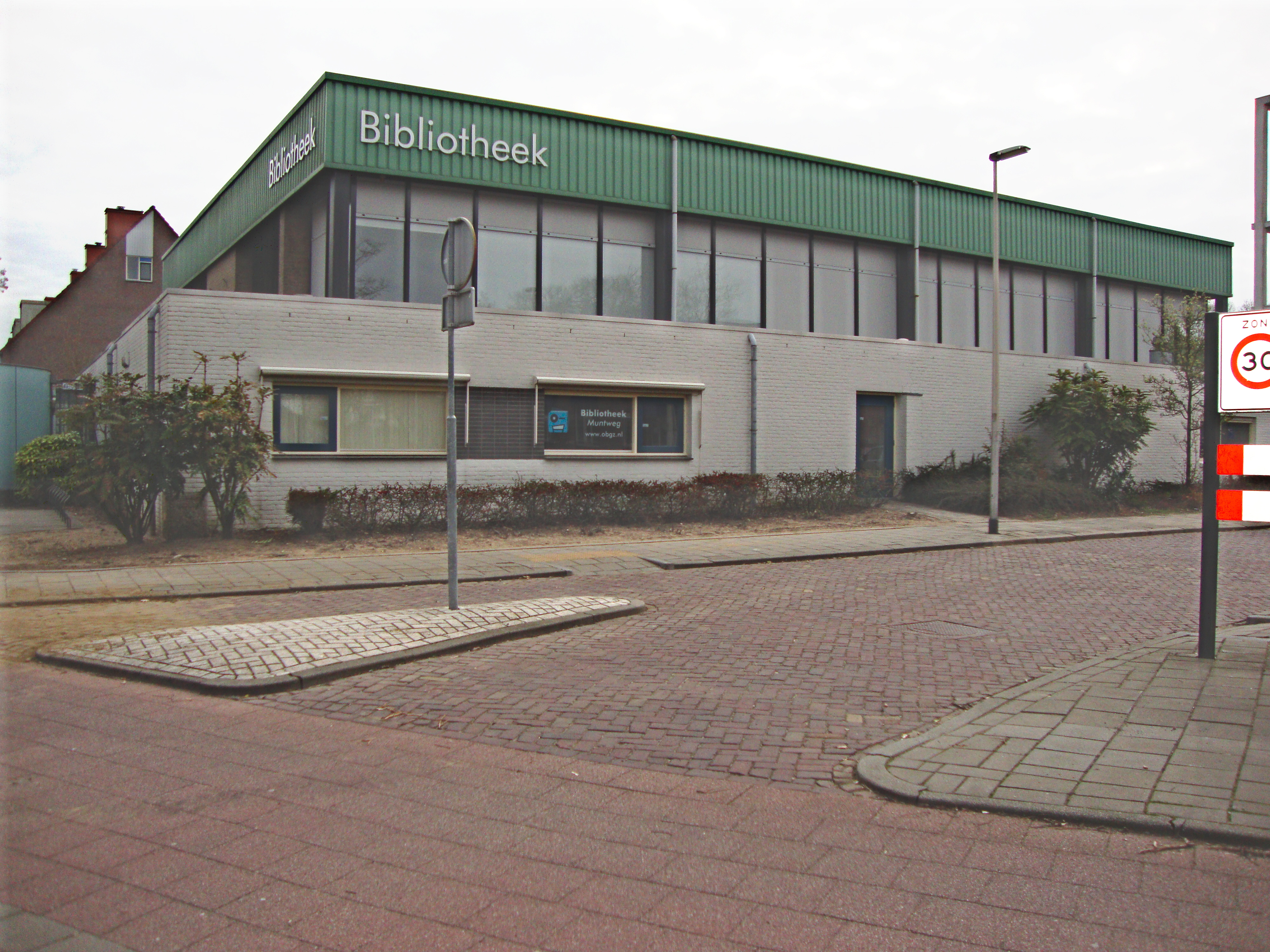 Nijmegen, neighbourhood Library, Muntweg